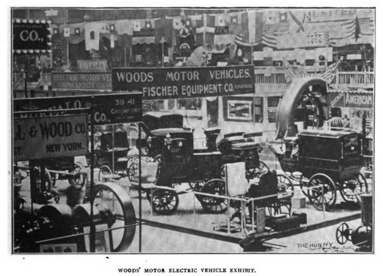 Picture of Woods Electric Vehicles at May 1899 Electric show